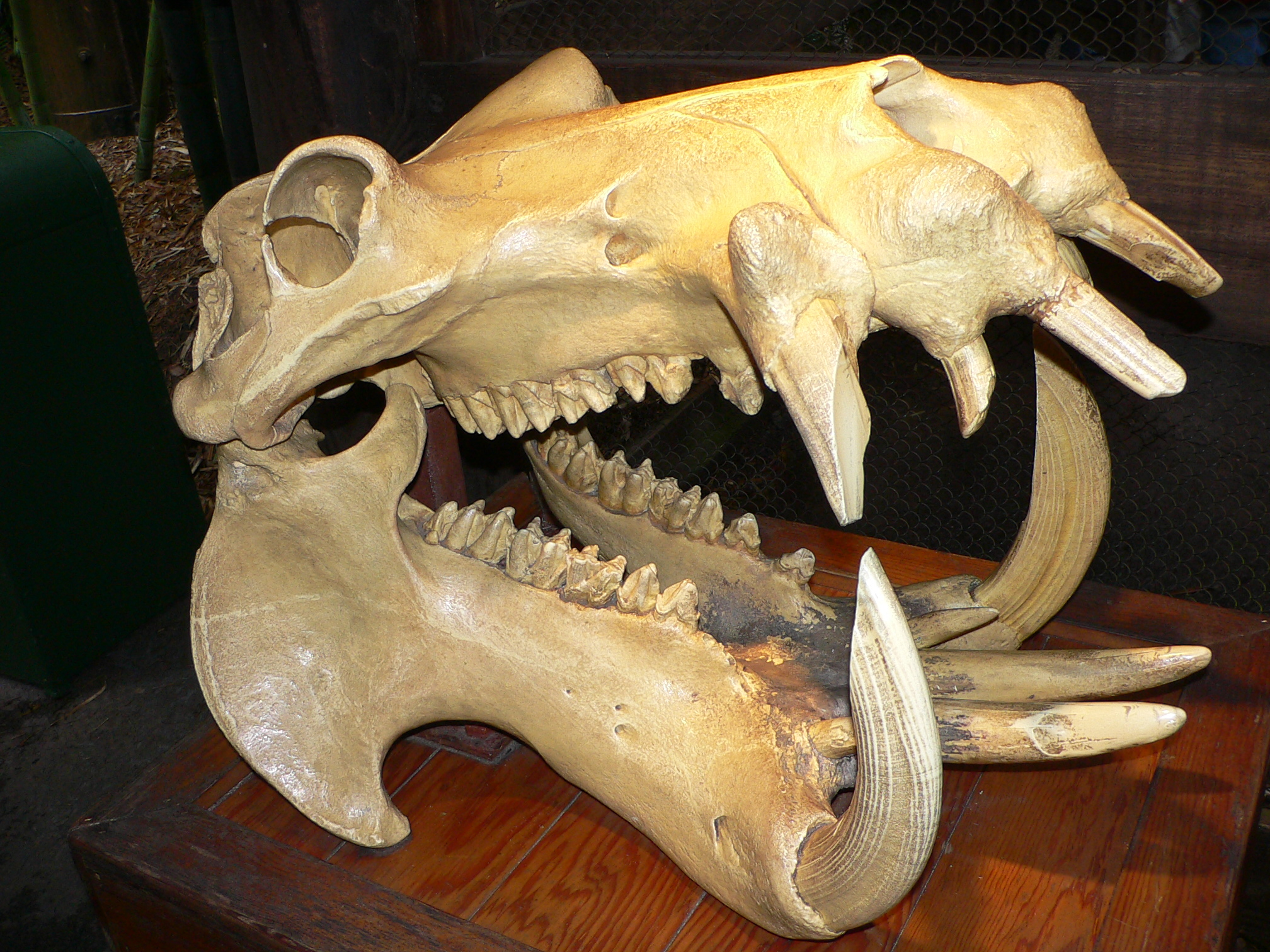 A hippo's skull. Taken at Disney's Animal Kingdom Aragonés: Cranio d'un hipopotamo, en o qualo s'aprecian os suyos grans catirons.